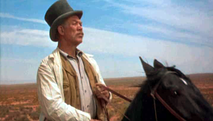 Cropped screenshot of Ward Bond from the trailer for the film The Searchers